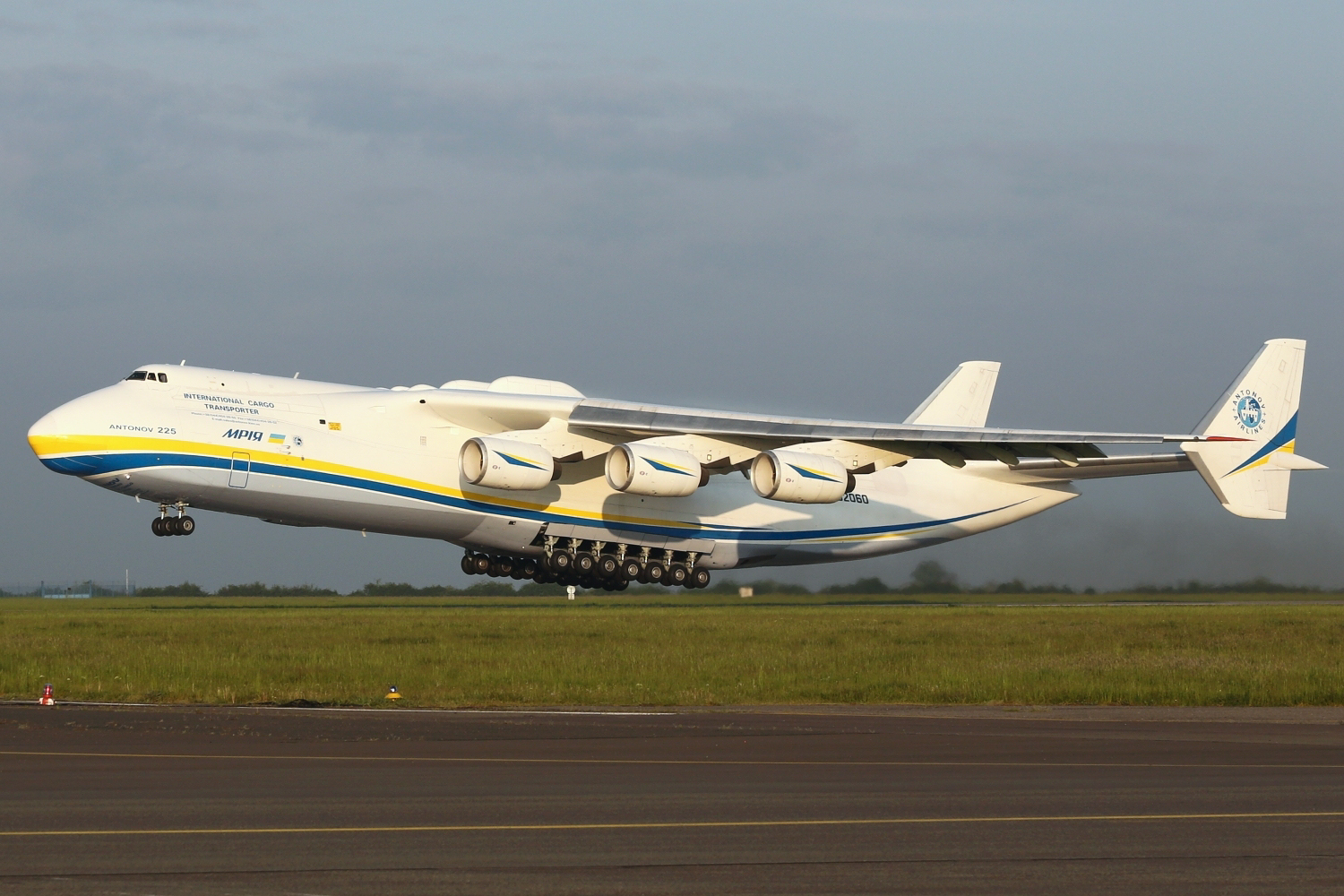 Antonov An-225 departing Prague Ruzyně Airport for Turkmenbashy